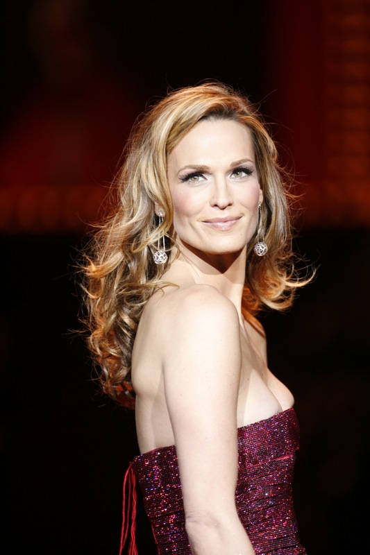 Molly Sims modeling at The Heart Truth Fashion Show 2008